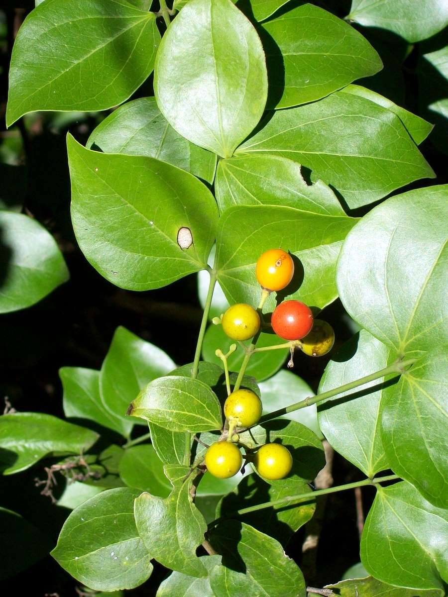 Strychnos psilosperma at the Royal Botanic Gardens, Sydney